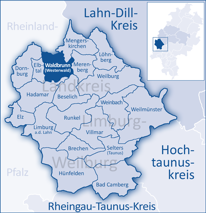 The map shows a district in the area of Limburg-Weilburg